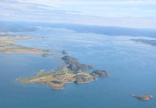 Mouth of Trondheimsfjorden with isle Garten and the Ørland peninsula to the left